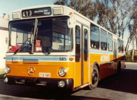 ACTION bus ZIB-585 at Spence Terminus